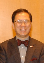 Donald Tsang, Chief Executive of Hong Kong